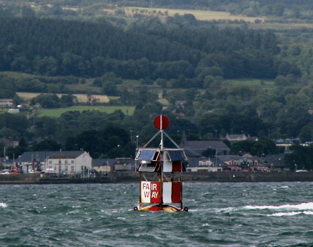 Belfast Fairway Buoy. An important buoy for all traffic in Belfast Lough, it sits in the centre of an imaginary line between Grey Point and Carrickfergus Castle and marks the limit of authority for the Port of Belfast. No commercial shipping is allowed to past west of this buoy without firstly informing the Port of Belfast and many vessels have to wait east of this point until a pilot comes on board to take them into the harbour 1393355. The buoy is a permanent fixture and is anchored firmly to the seabed. It is equipped with a light and emits an electronic navigation signal.